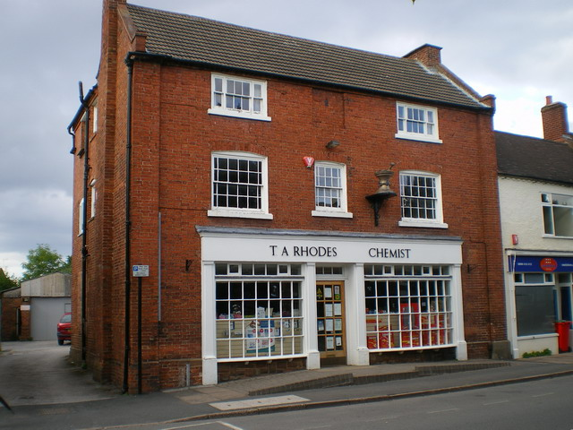 T A Rhodes the chemist in Albrighton An independent chemist's shop in the High Street.